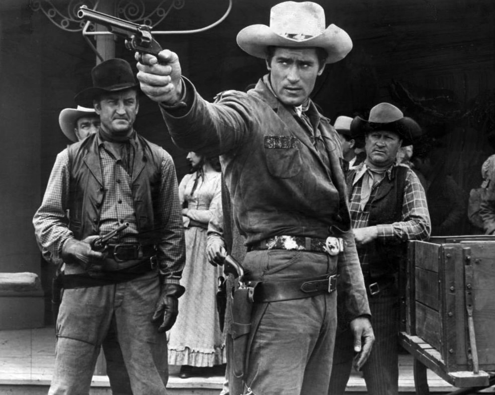 Photo of Clint Walker as Cheyenne from the television program Warner Brothers Presents.